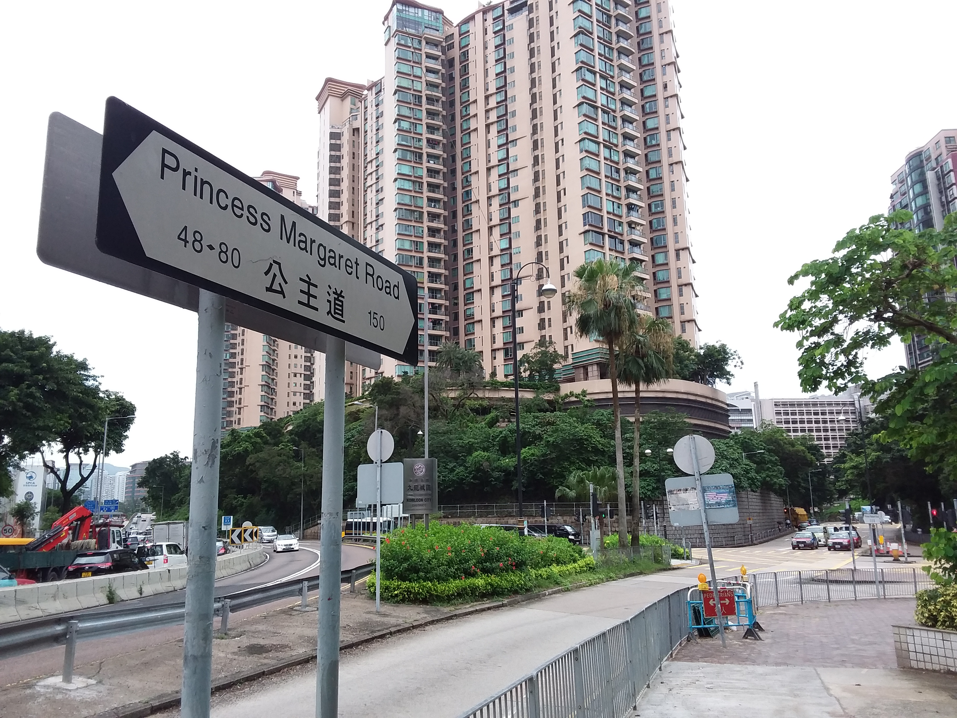 HK 九龍城 Kowloon City 何文田 Ho Man Tin 公主道 Princess Margaret Road in June 2019